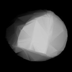 3D convex shape model of 1904 Massevitch, computed using light curve inversion techniques. J. Hanuš, J. Ďurech, M. Brož, B. D. Warner (June 2011). "A study of asteroid pole-latitude distribution based on an extended set of shape models derived by the lightcurve inversion method". Astronomy and Astrophysics 530: A134. ISSN 0004-6361. arXiv